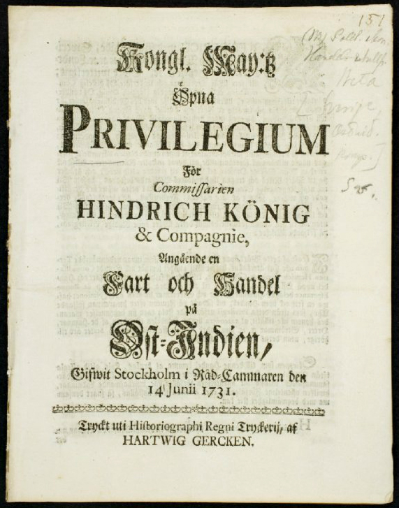 First page of the permission from his Royal Majesty to Commissarien Hindrich König and the Swedish East India Company to conduct trade on the East Indies.